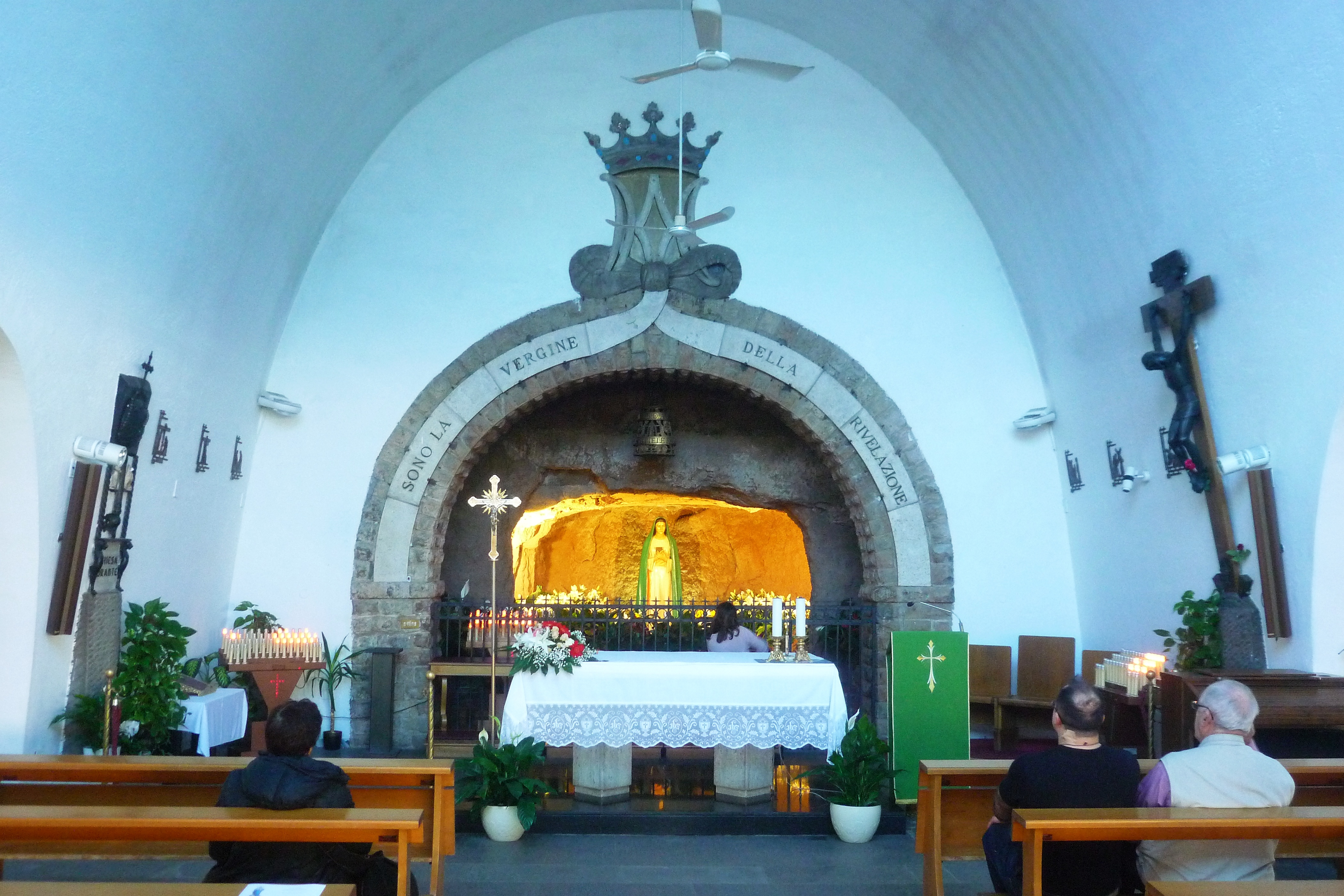 Sanctuary of "Madonna della Rivelazione" - in Tre Fontane Abbey, Rome